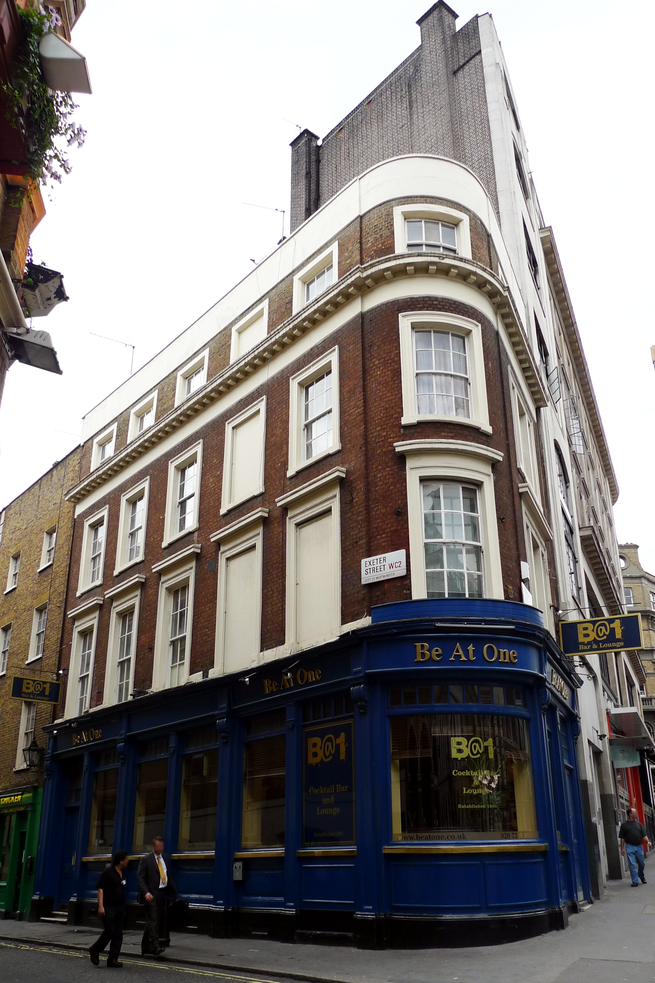 Chain bar near the Lyceum theatre. (It was in the Good Beer Guide as the Hog's Head.) Address: 23 Wellington Street. Former Name(s): Hog's Head; The Old Bell. Owner: Be at One (website); Whitbread/Laurel Pub Co [Hogshead] (former). Links: Fancyapint Beer in the Evening Dead Pubs (history)